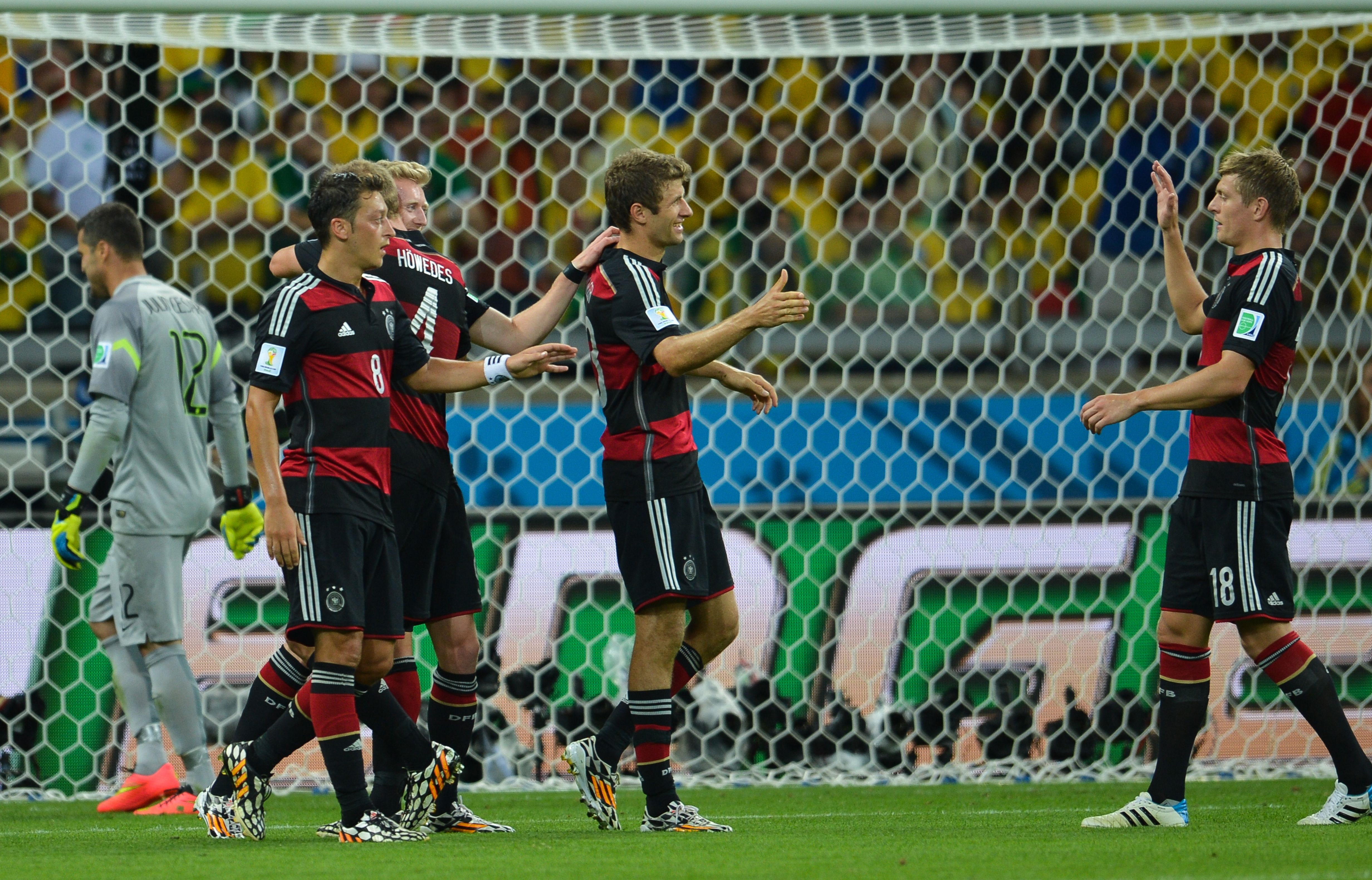 Brazil 1 x 7 Germany. Marcello Casal Jr/Agência Brasil CCBY3.0